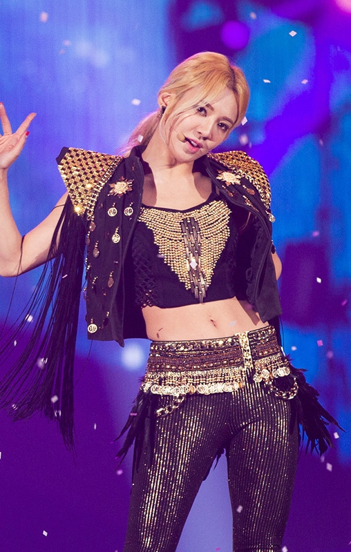 Hyoyeon at SBS Gayo Daejeon on December 29, 2013.